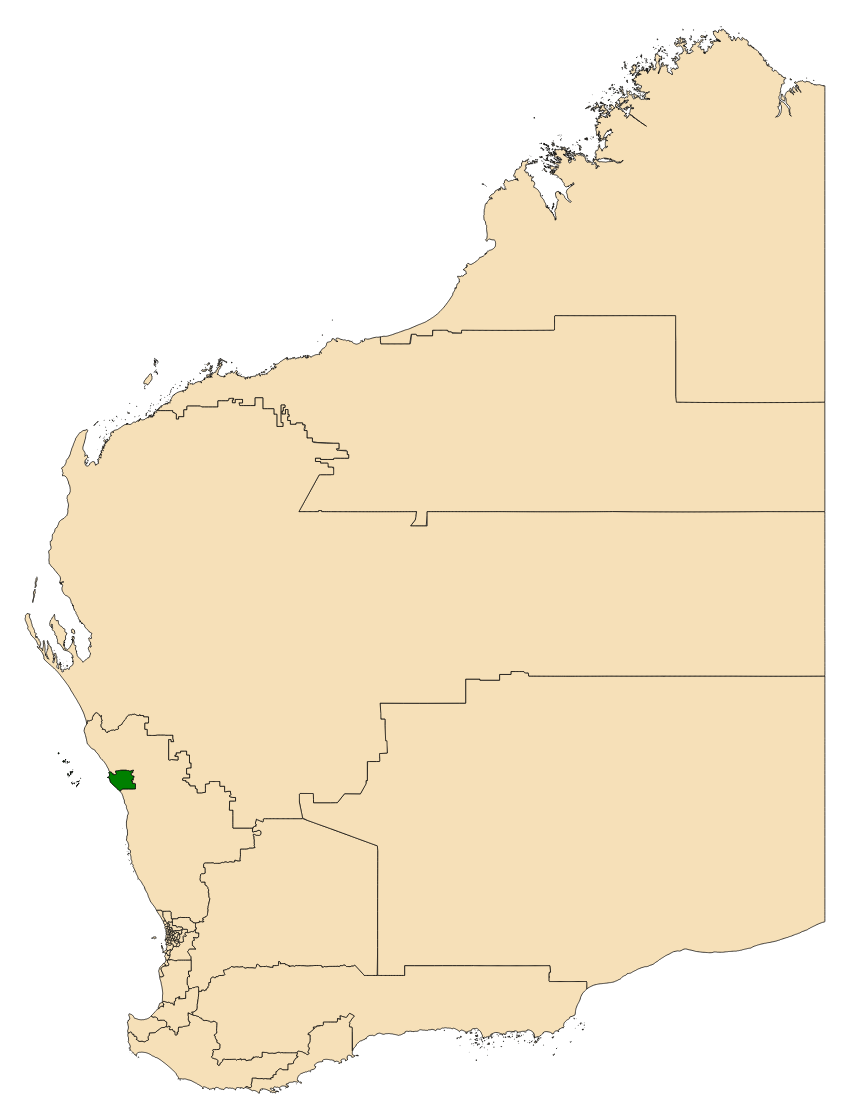 Location of the electoral district of Geraldton in Western Australia as of the 2017 WA state election.